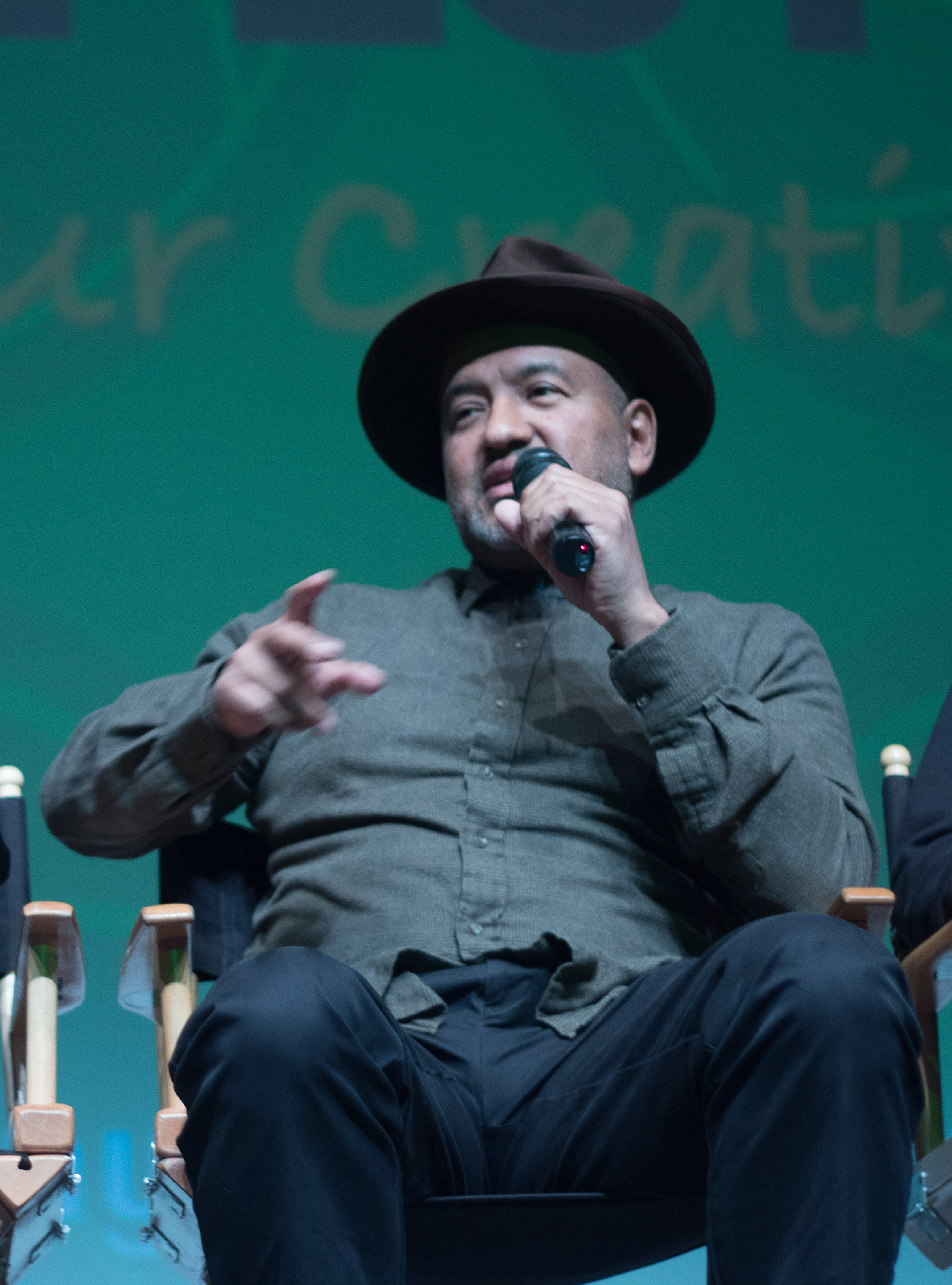 Juan Escobedo speaking to the Playhouse West Film Festival audience about the film Marisol and why it was so important to make.